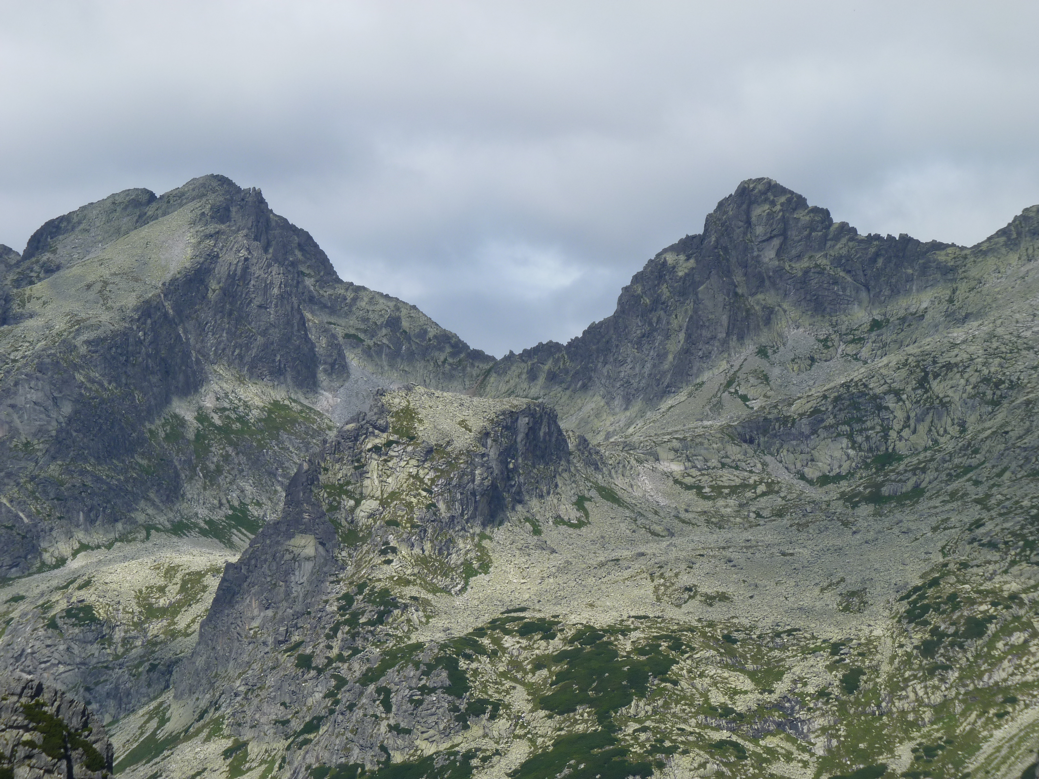 Tatra Mountains, Slovakia